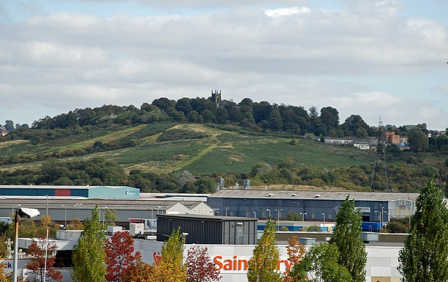 View from the Dudley No 1 Canal at Merry Hill to St Andrew's parish church, Netherton, West Midlands